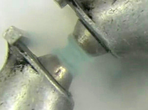 A chemical demonstration of the paramagnetism of molecular oxygen, as shown by the attraction of liquid oxygen to magnets.